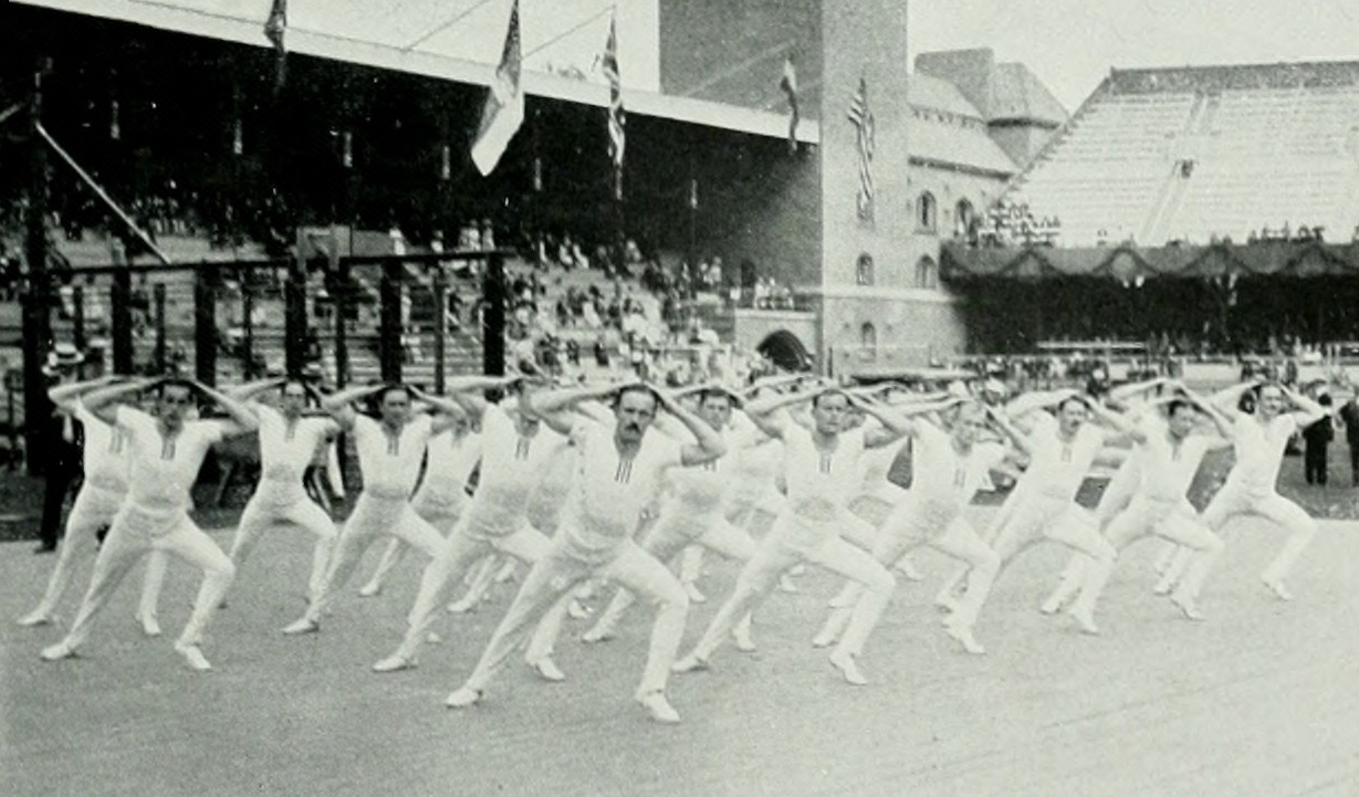 Norwegian gymnastics team in the competition III at the 1912 Summer Olympics